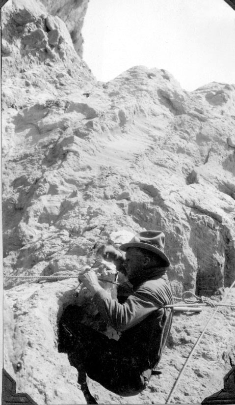 Mr. Robert C. Thorne working on Doedicurus skeleton prospect. 1926. Name of Expedition: 2nd Captain Marshall Field Paleontological Expedition Participants: Elmer S. Riggs (Leader and Photographer),Robert C. Thorne (Collector), Rudolf Stahlecker (Collector), Felipe Mendez Expedition Start Date: April 1926 Expedition End Date: November 1926 Purpose or Aims: Geology Fossil Collecting Location: South America, Argentina, Catamarca, Puerta Corral Quemado Original material: 5x7 inch Interpositive Digital Identifier: CSGEO69390 Learn more about The Field Museum's Library Photo Archives.